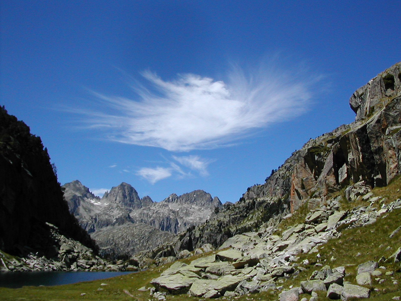 Author: David Gaya This a picture of the Valley of Colieto in Aigüestortes i llac de Sant Maurici National Parc in Spain.